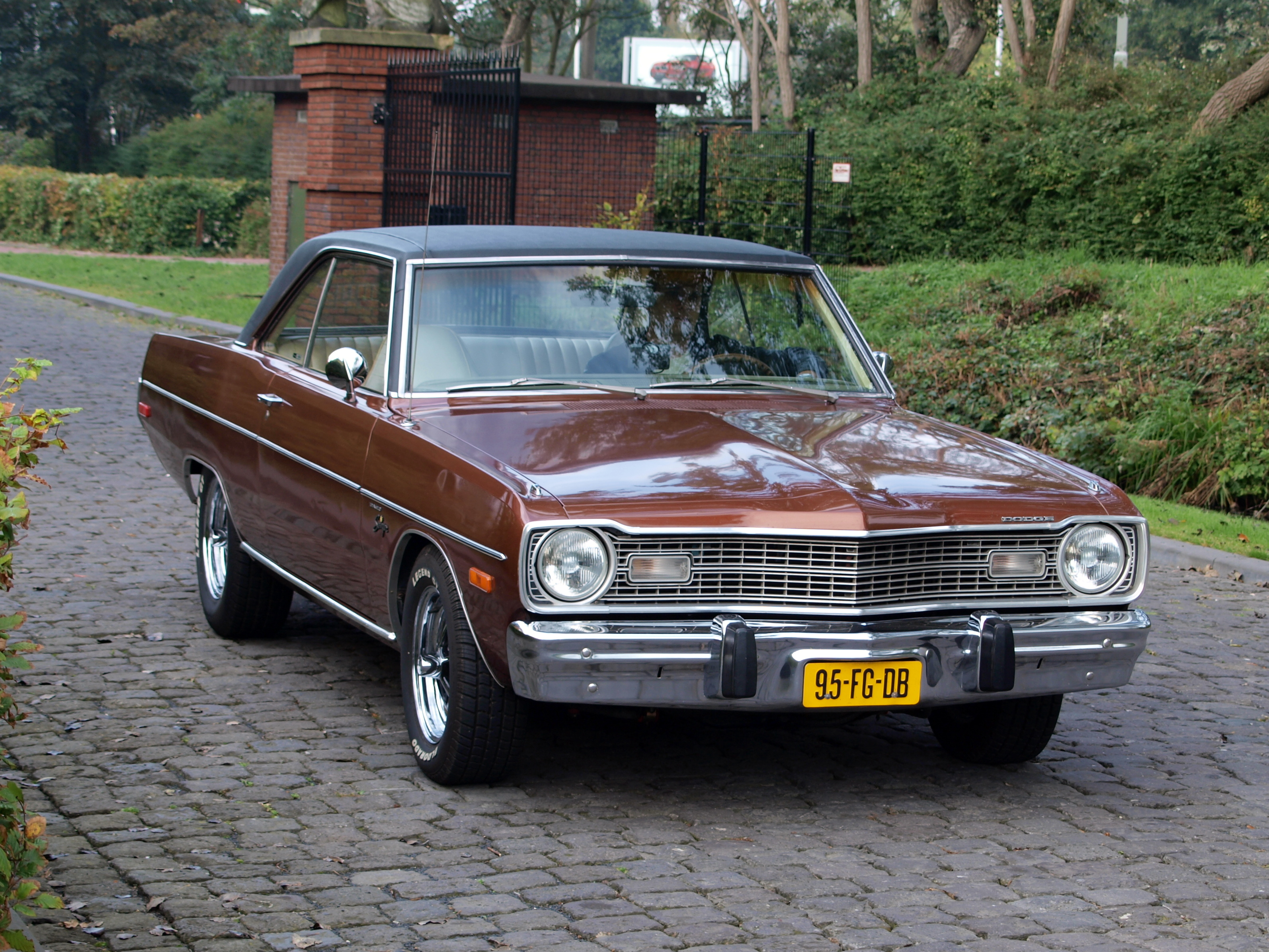 Photographed at the premmesis of the Louwman museum, The Hague, The Netherlands. OLYMPUS DIGITAL CAMERA